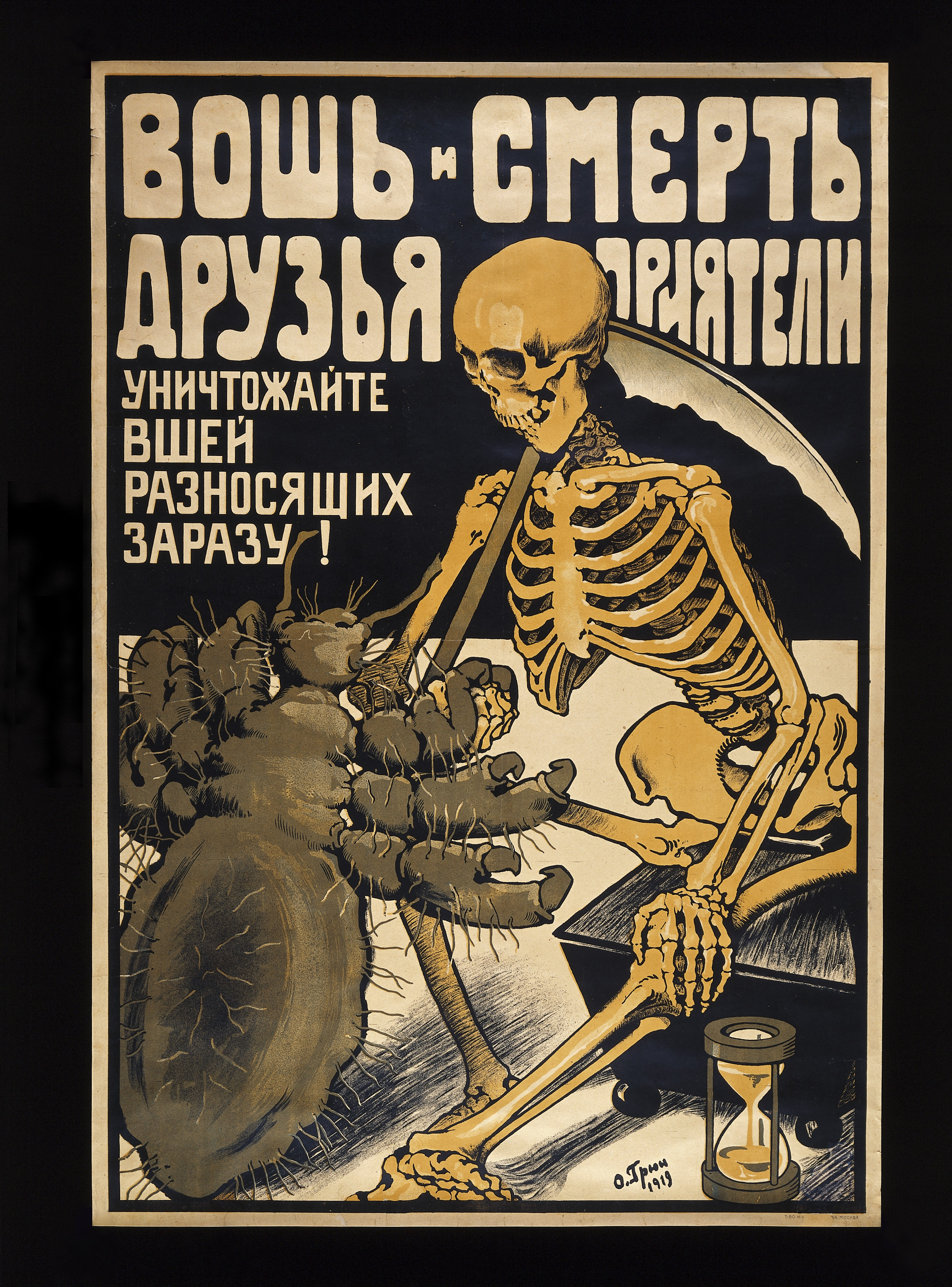 The typhus louse shaking hands with Death. Colour lithograph by O. Grin, 1919 As a matter of fact, the artist obviously didn't know how typhus spread; that is a picture of the crab louse Pthirus, which is not a significant vector of typhus if at all. Furthermore, the Rickettsia generally kills the lice too, so that though the sentiment is good, the biology is bad. Iconographic Collections Keywords: O. Grin; Ernest Henry Shackleton